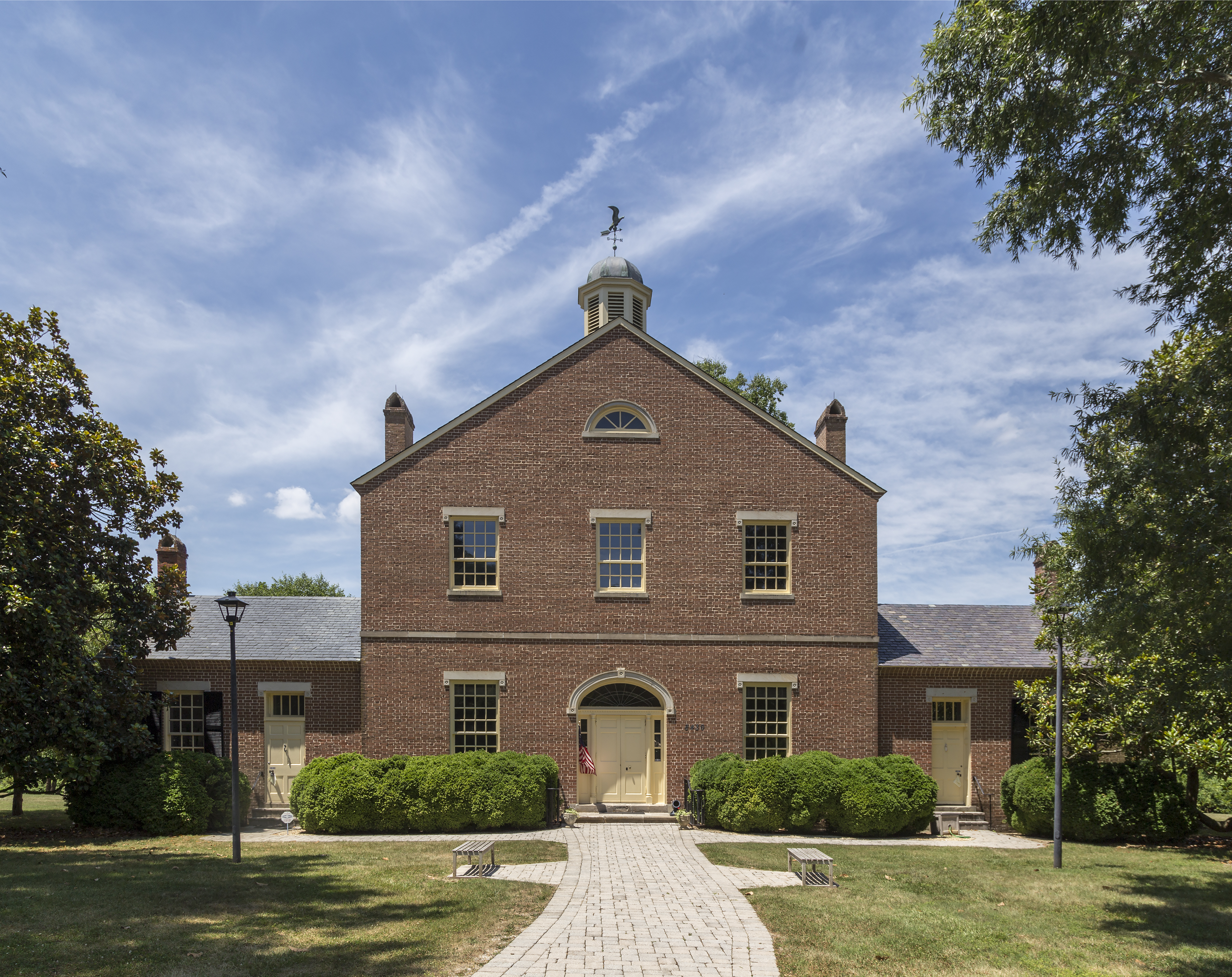 The modern replica of the courthouse at Port Tobacco, Maryland, USA